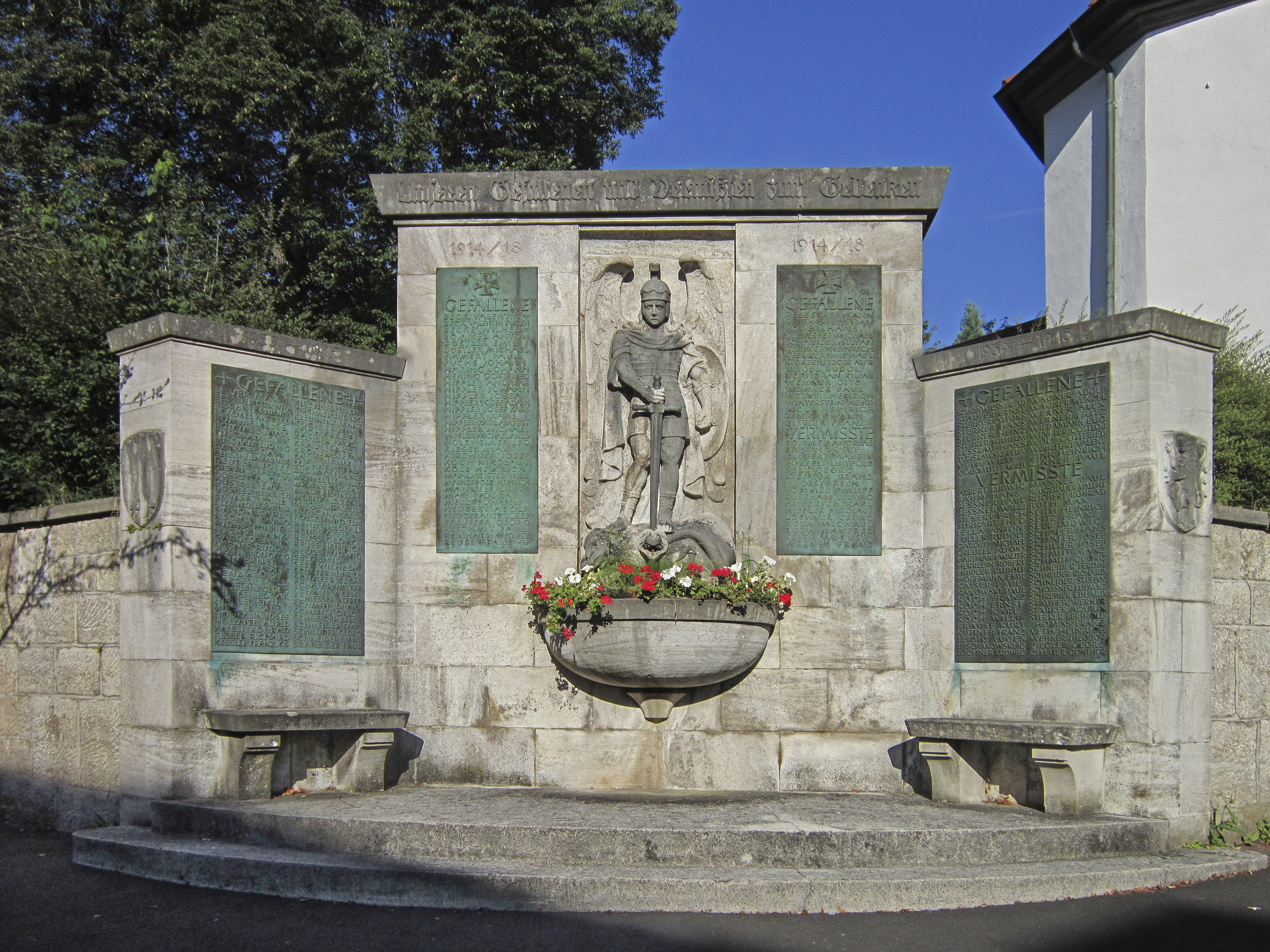 War Memorial located in Garitz, a quarter of the German spa town of Bad Kissingen in Lower Franconia (Bavaria), remembering on World War I and II.